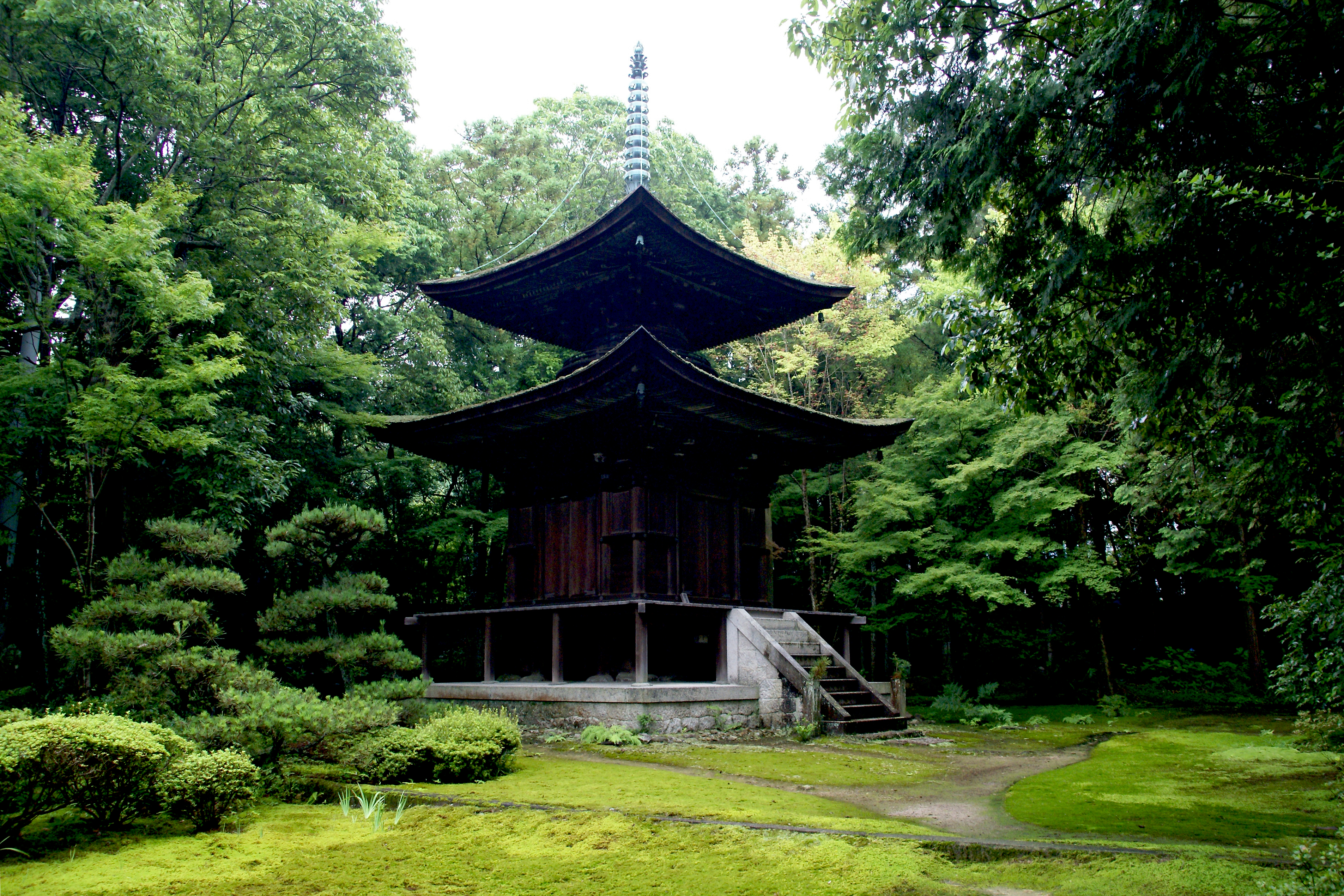 Jigenin in Izumisano, Osaka prefecture, Japan Tahoto Pagoda is a National Treasure of Japan.